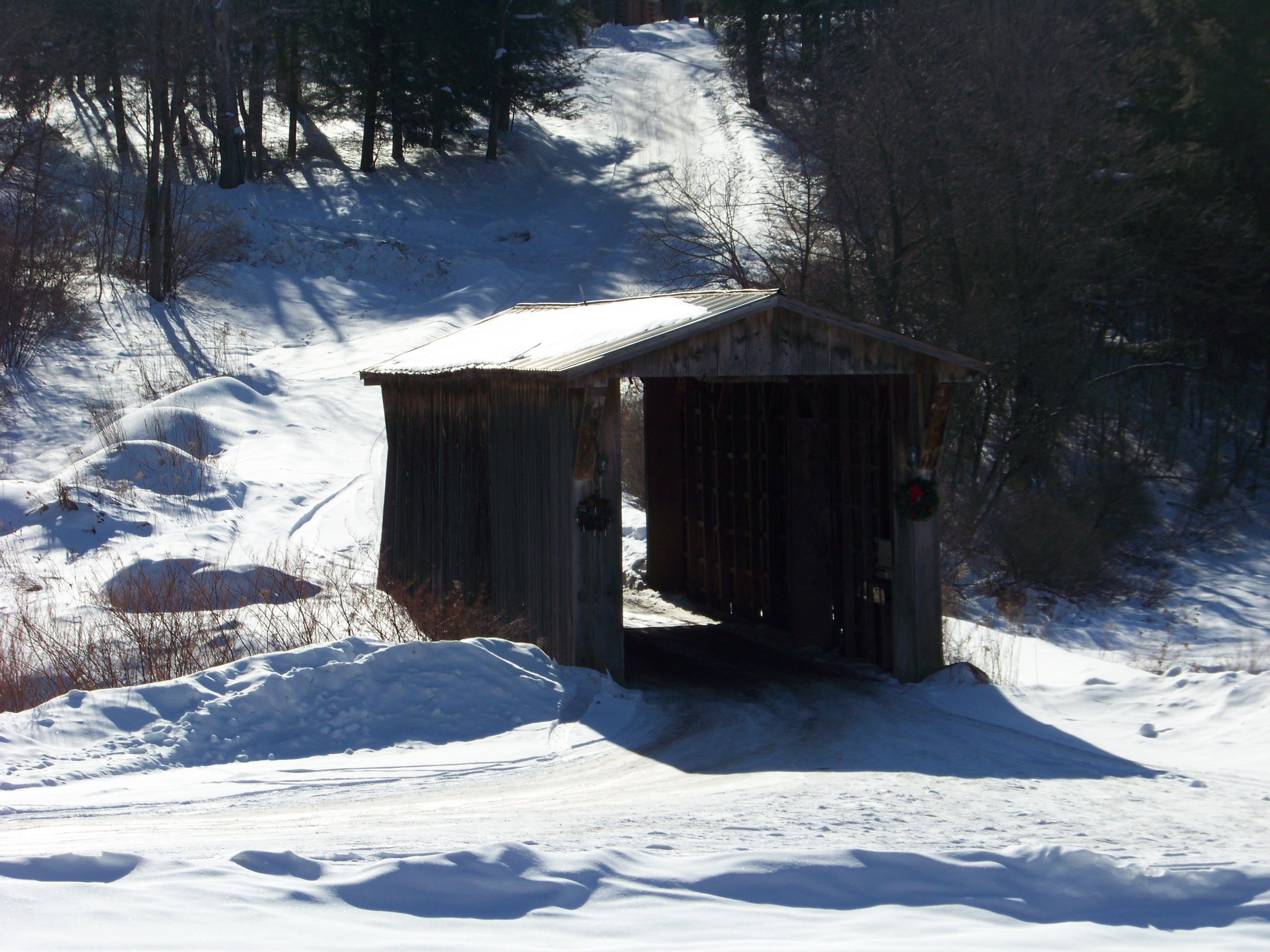 Bridge on Doe Road, Roydhouse Bridge, NY-33-C, Bridgewater, NY - Oneida County